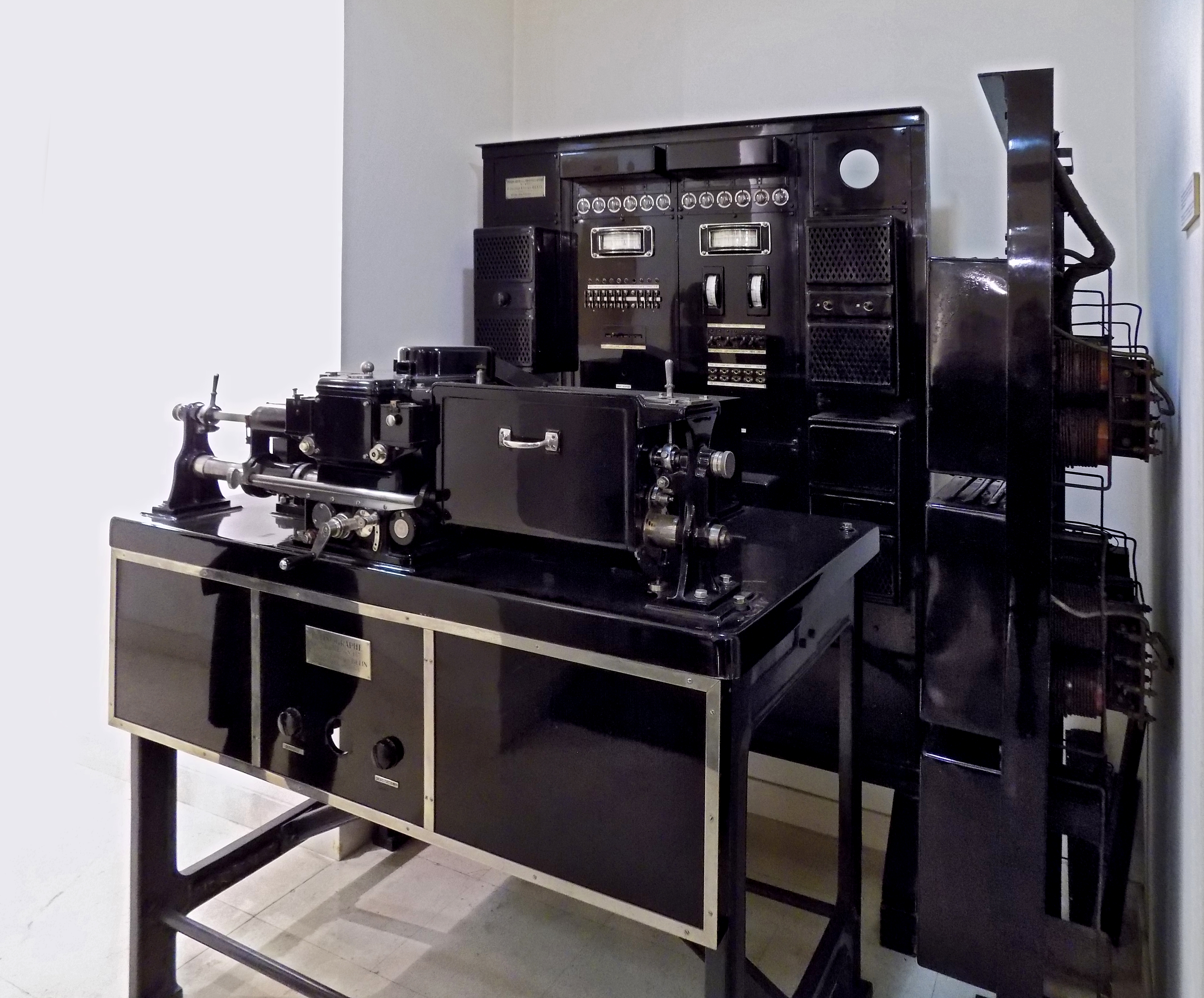 Belinograph B.R.N. 1936 (PTT Museum in Belgrade) - phototelegraphic apparatus able to send photographs over the telephone and telegraphic networks